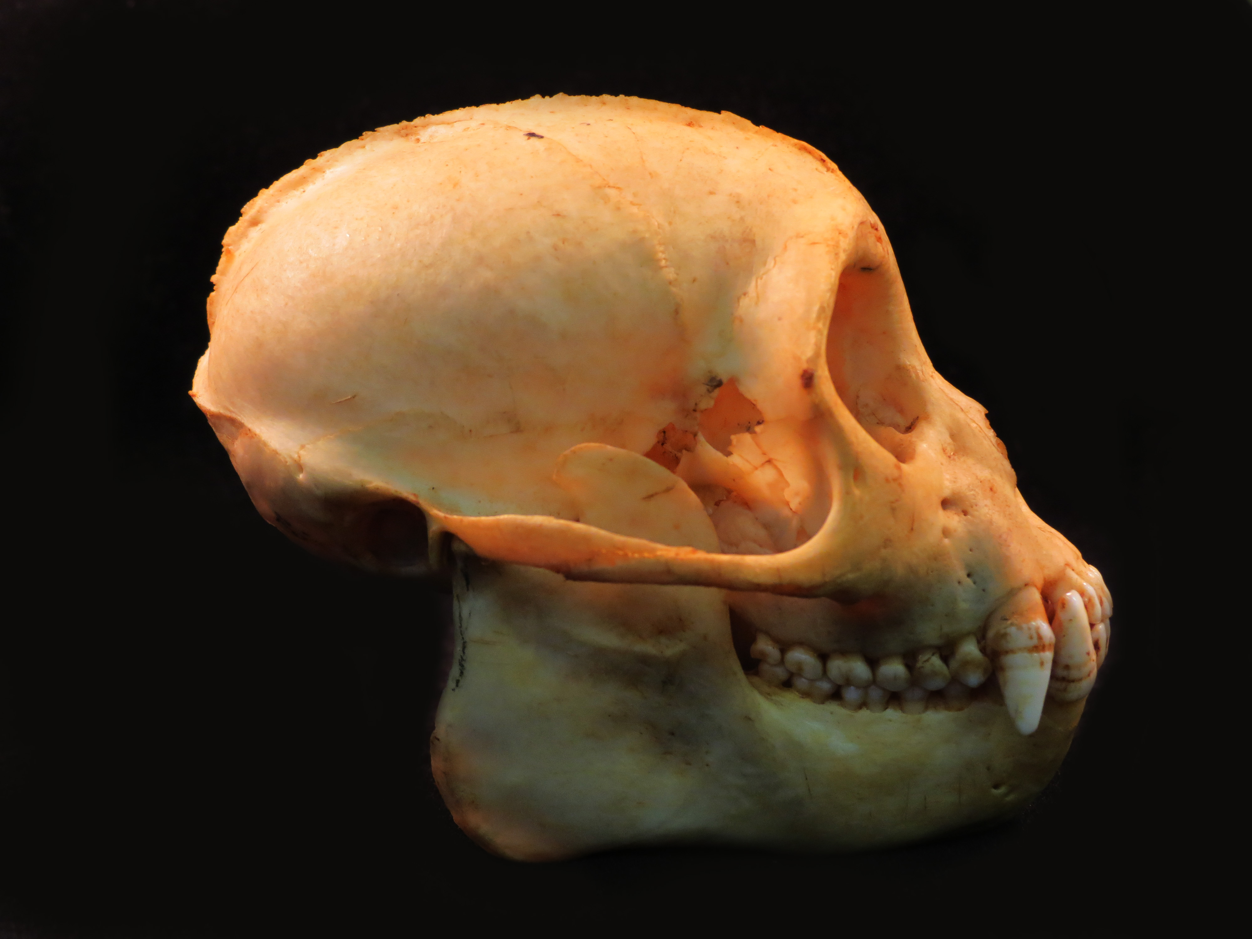 Skull of Sapajus nigritus robustus male from Colatina, Espírito Santo, Brazil. University of São Paulo Zoology Museum (Museu de Zoologia da USP)